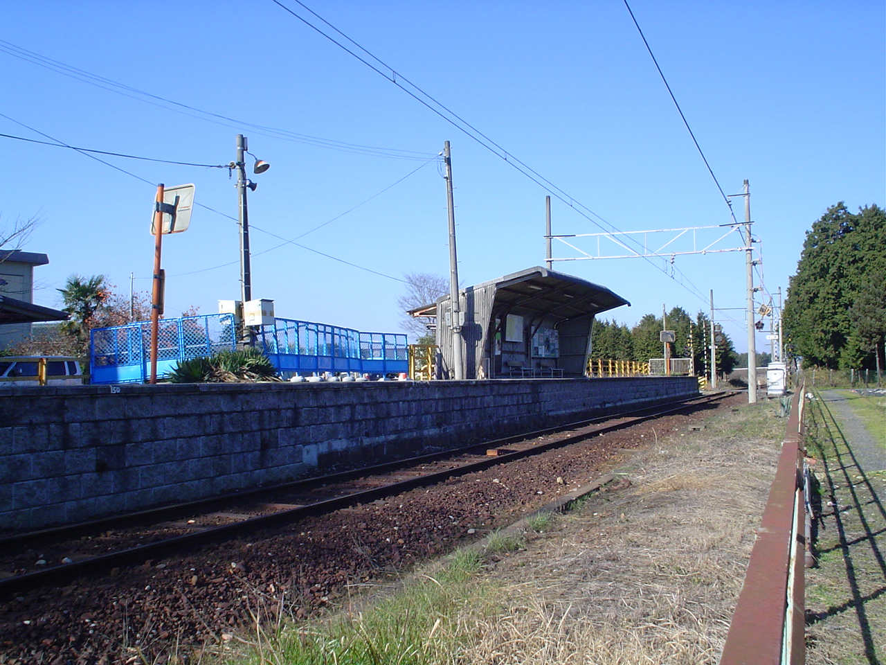 Asahi Ōtsuka Station in shiga pref, japan